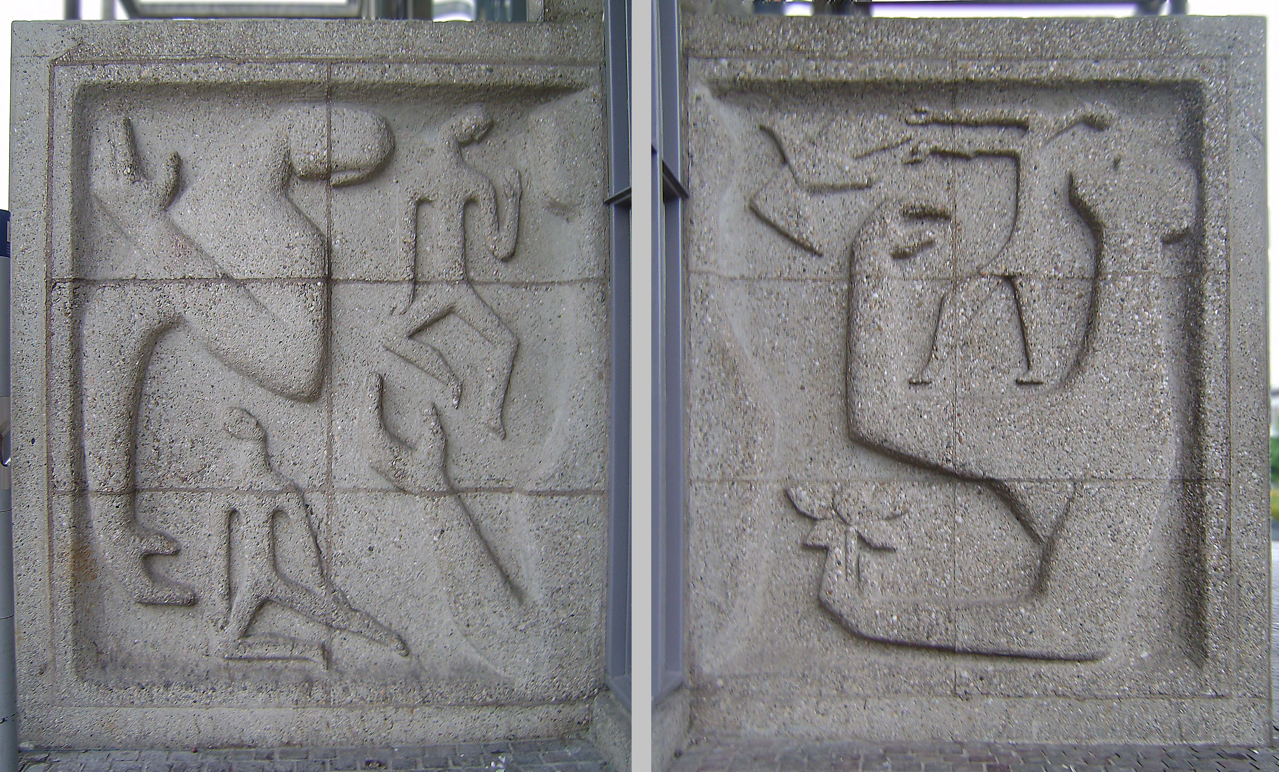 Reliefs by Ben Guntenaar, installed at the entrance of Zutphen train station in 1952.